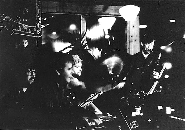 FLIPPOMUSIC at the Jazz Bulls, 1996. Steve Hashimoto-bass, Dave Flippo-keys, Aras Biskis-drums, Dan Hesler-saxophone.